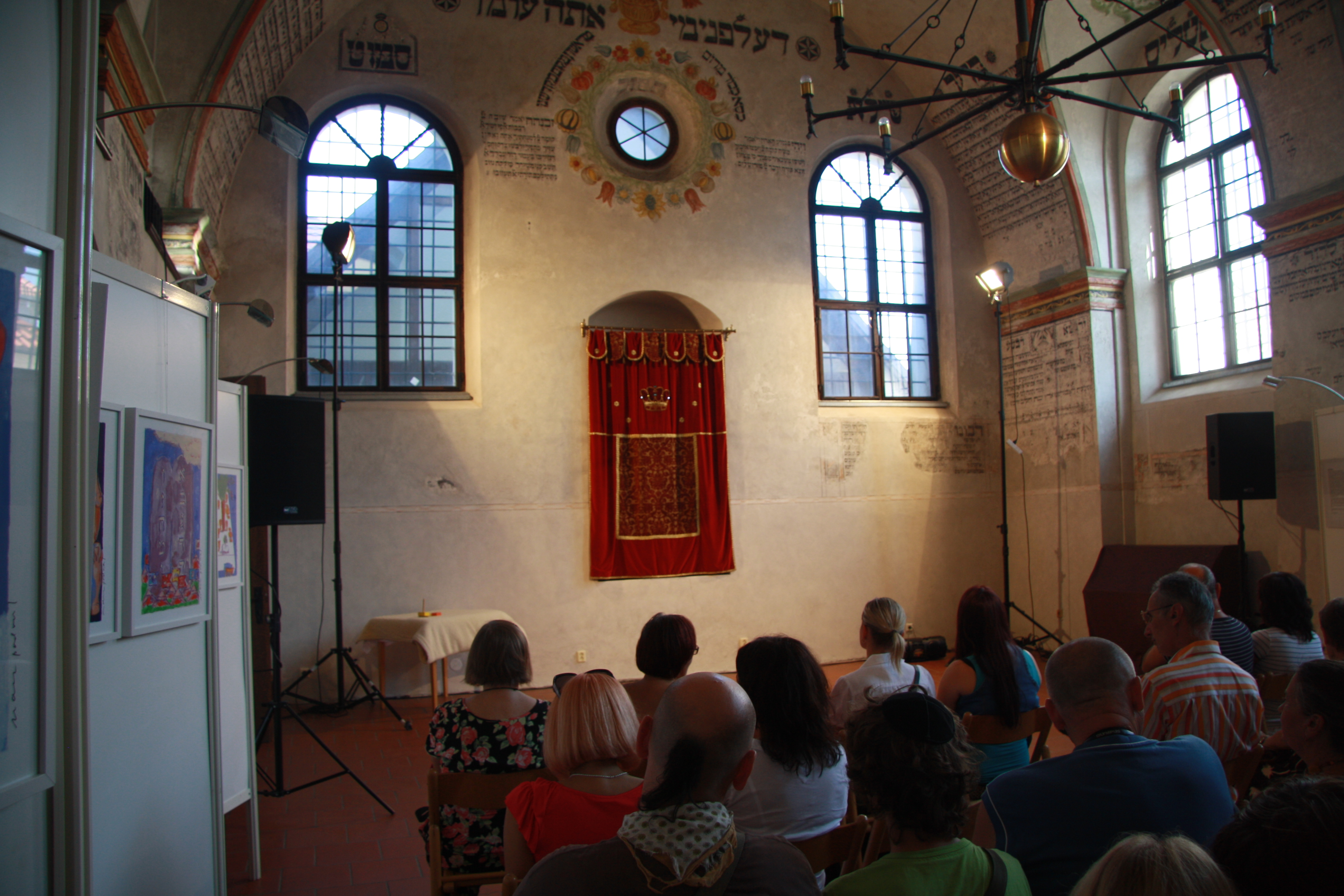 Back synagogue at Šamajim 2014, Třebíč, Třebíč District.